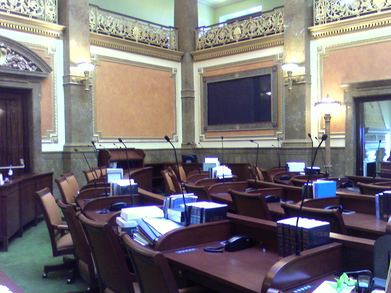 Utah State House of Representatives Chamber.